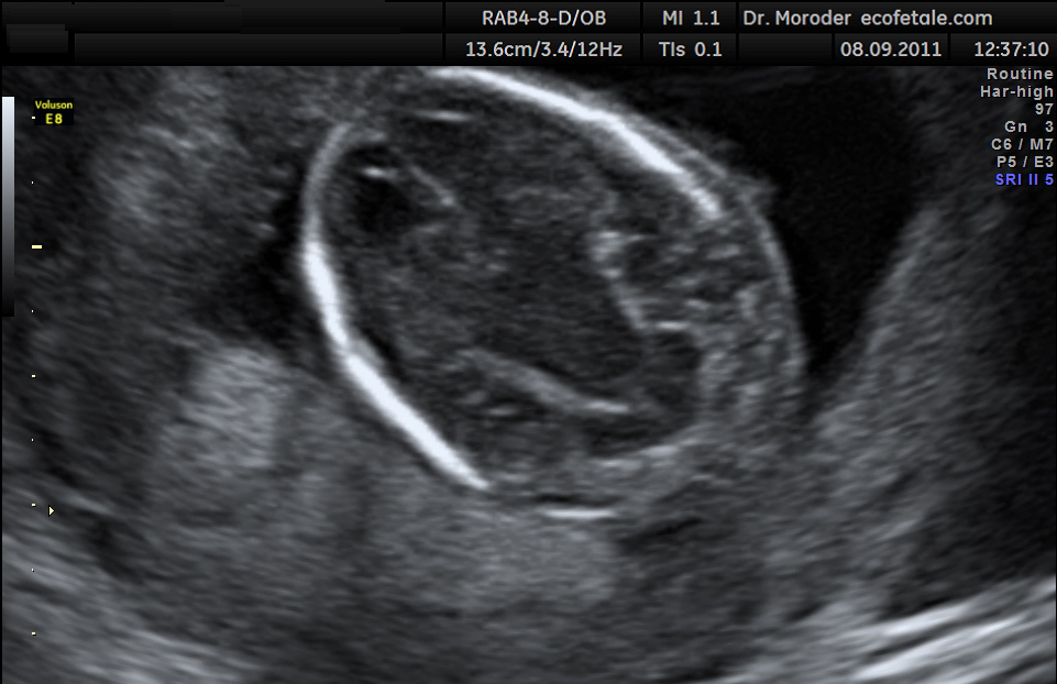 Modified oblique axial scan of the fetal cranium. Ultrasound image including the posterior fossa at 16 weeks +2 days of pregnancy with the banana sign - The cisterna magna is obliterated. Image generated by a Voluson E8 system with 3D Static Volume Mode, with mechanical RAB4-8-D Wide Band Convex Volume Probe. Focal Zone position at 13.6 cm. Aquisition: B mode. Threshold 91/Harmonic imaging high. Speckle Reduction Imaging II